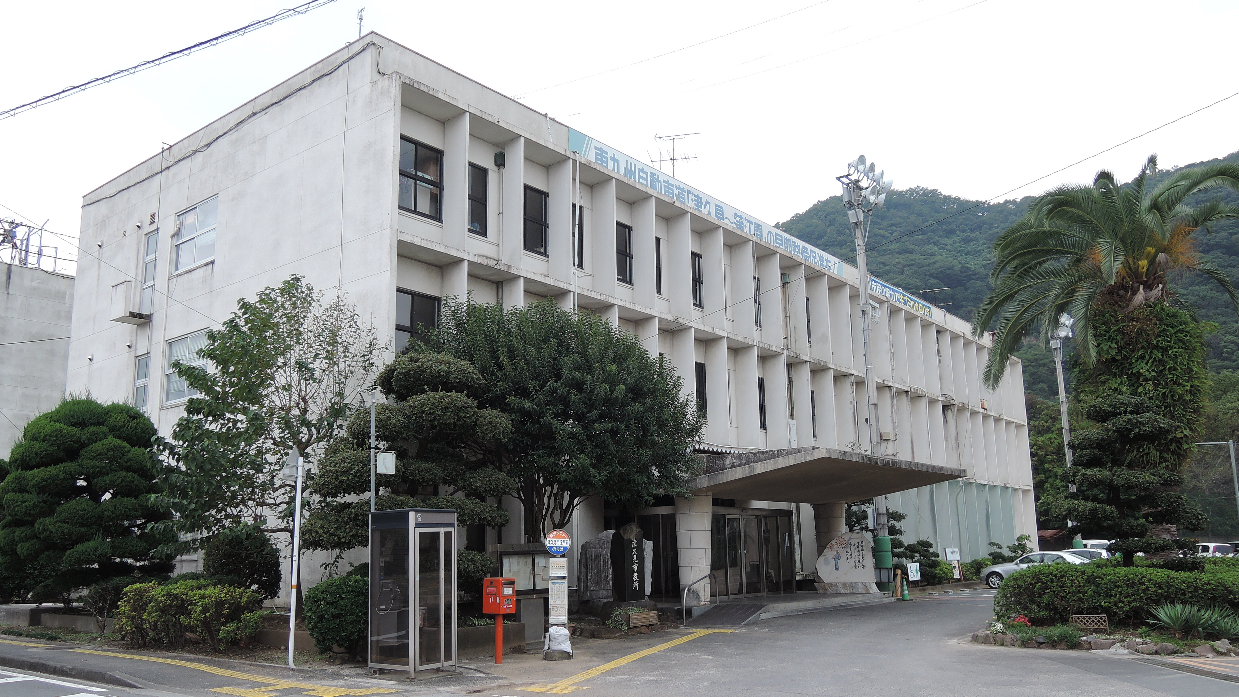 Tsukumi city hall,Oita prefecture,Japan